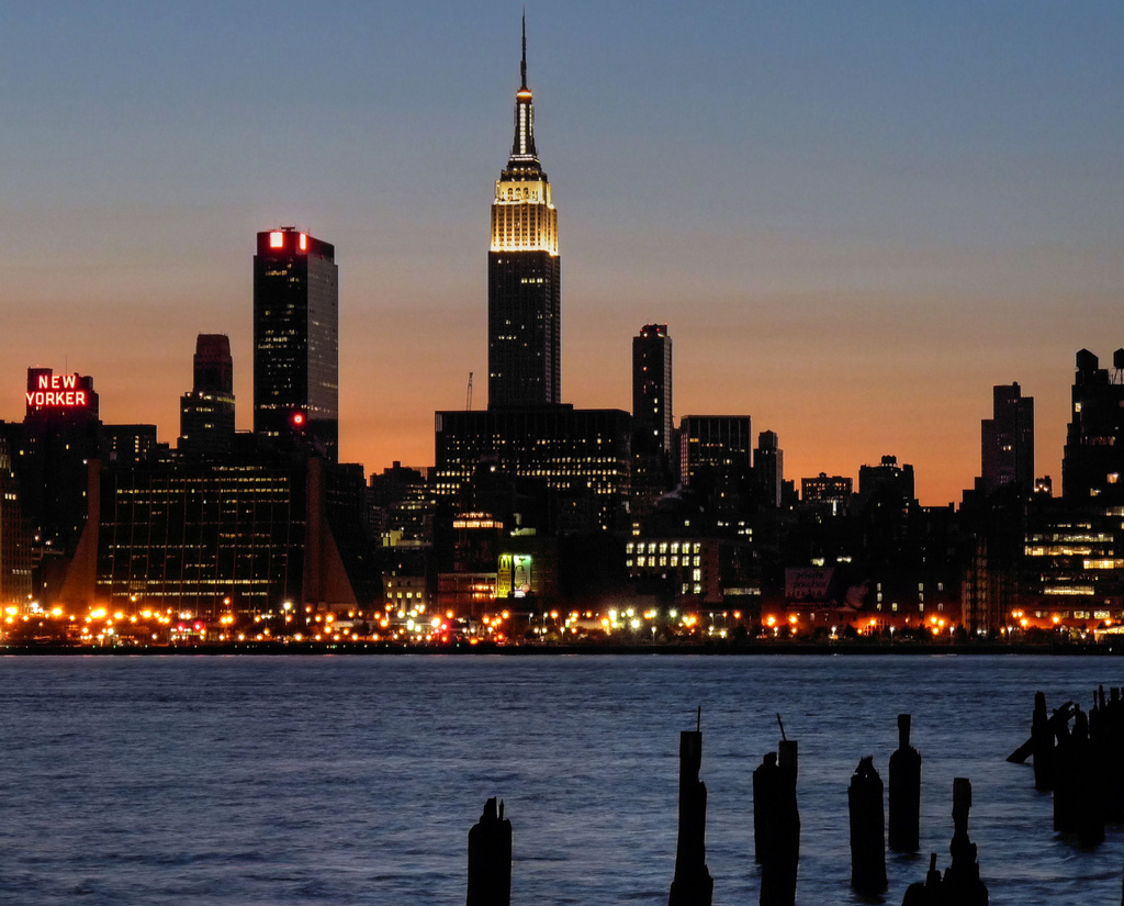 Empire StateBuilding From NJ